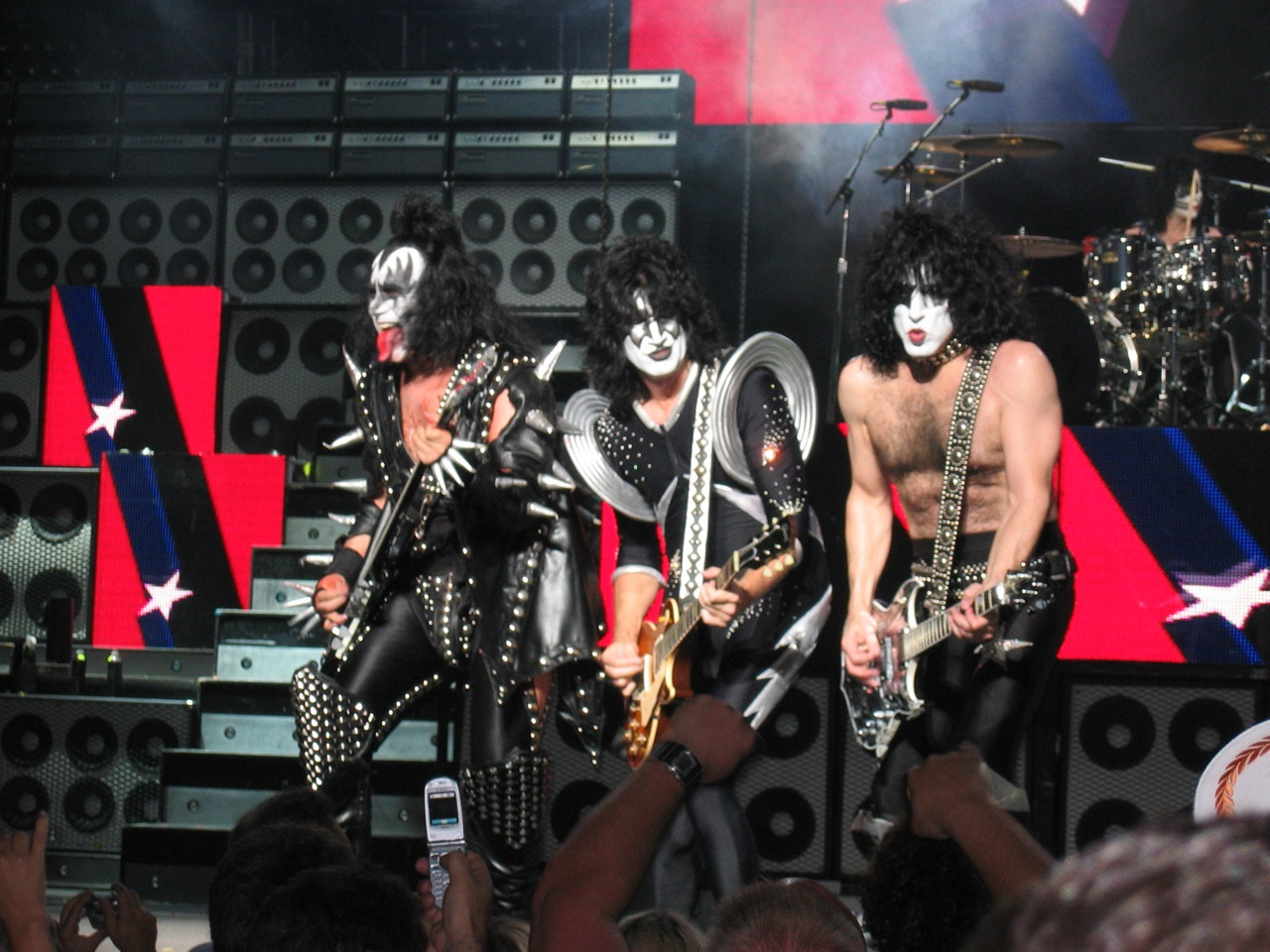 KISS in concert in Boston, 2004